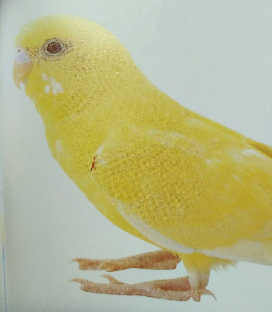 lc